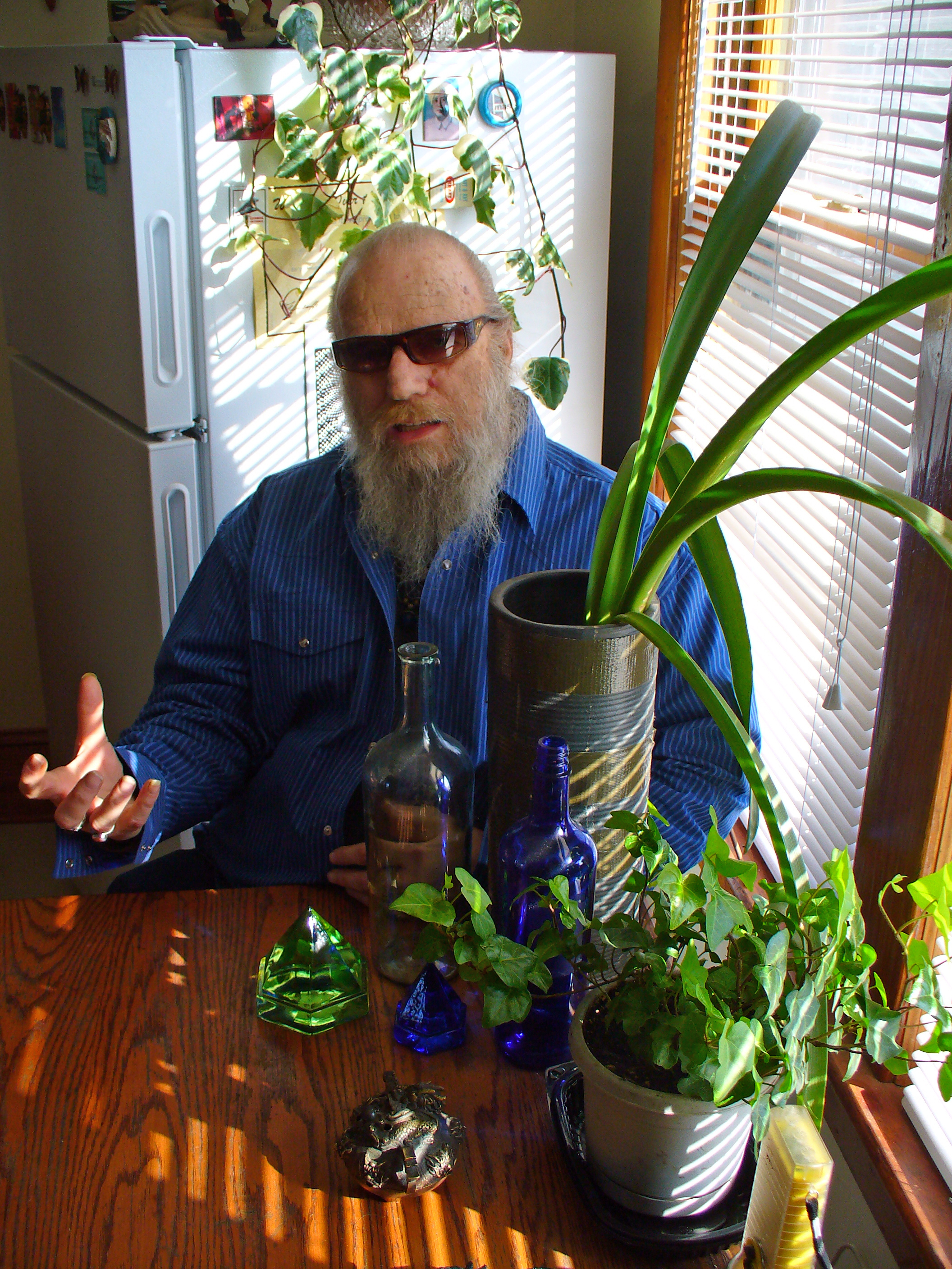 Billy Name 2 by David Shankbone